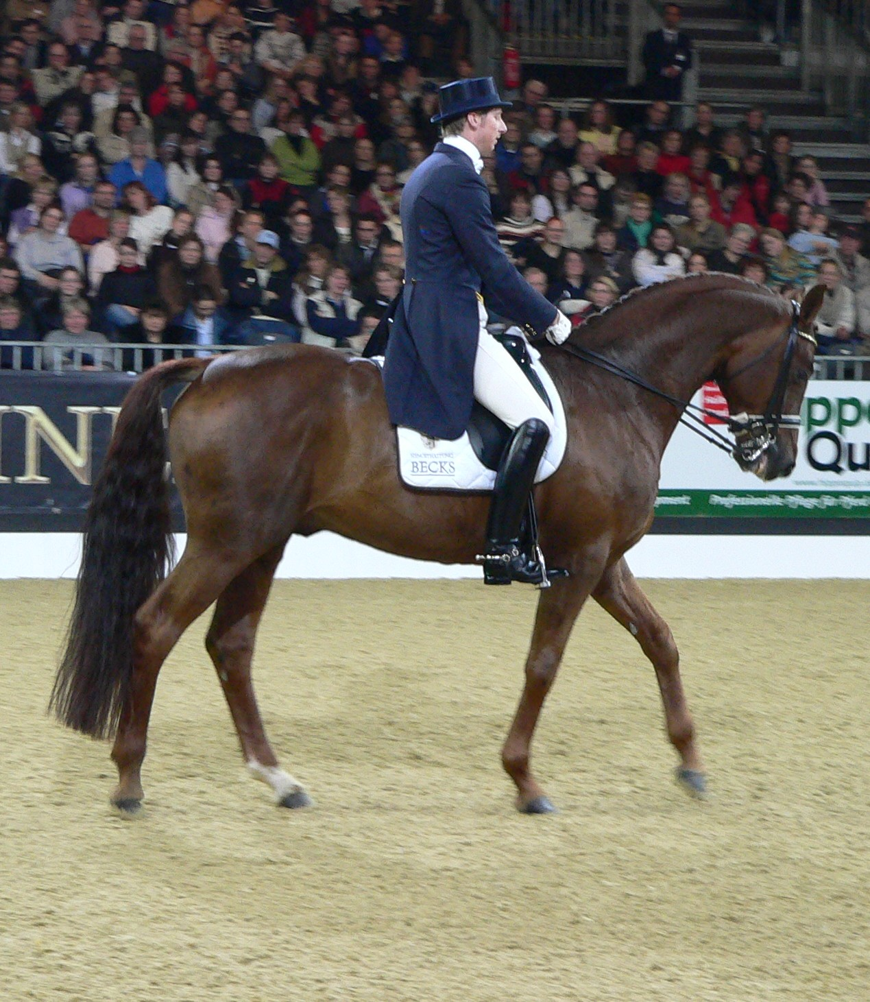 Hannoverian, Stallion "Romantic Boy" as presented on the german horsefair "Equitana" during the „Equitana Stallion Masters“ (Dressurkür der Klasse S für gekörte Hengste)